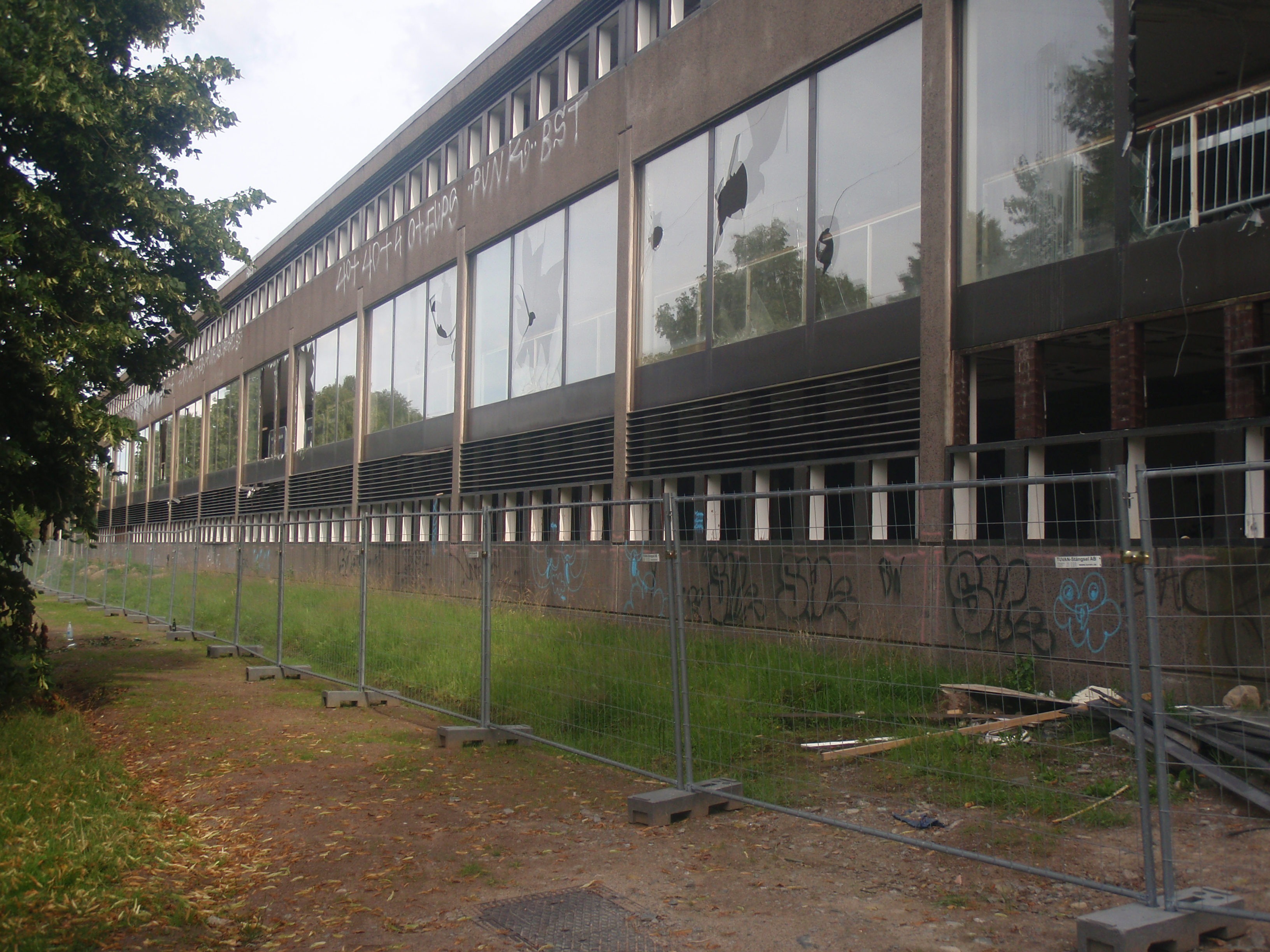 Former SVT/SR building (Swedish Television, Swedish Radio) in Gothenburg